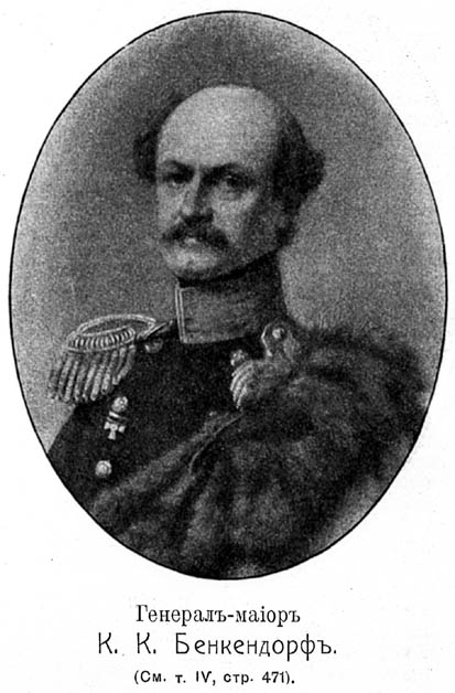 Benkendorf, Konstantin Konstantinovich (1817—1858). Граф Бенкендорф, Константин Константинович (1817—1858) — русский генерал-майор и дипломат из рода Бенкендорфов, герой Кавказской войны. Данное изображение было использовано в статье «Бенкендорф, Константин Константинович, граф» опубликованной в четвёртом томе «Военной энциклопедии», который был издан книгоиздательским товариществом Ивана Дмитриевича Сытина в 1911 году в столице Российской империи городе Санкт-Петербурге.